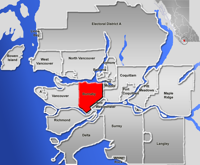 Location of Burnaby, Greater Vancouver Area, British Columbia